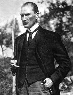 Mustafa Kemal Atatürk - 1919 in Sivas Congress